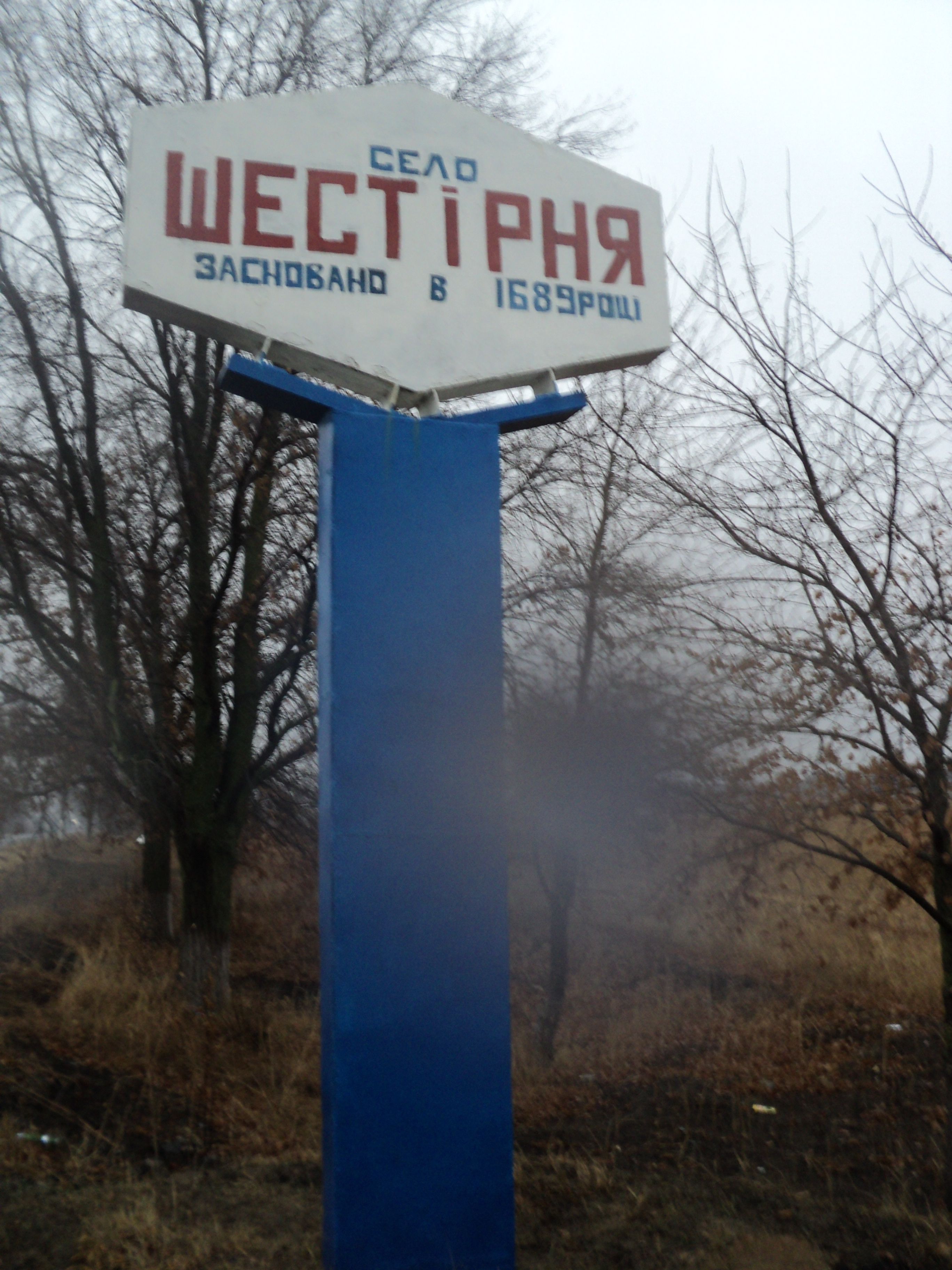 Sign at the entrance to the village of Shyroke